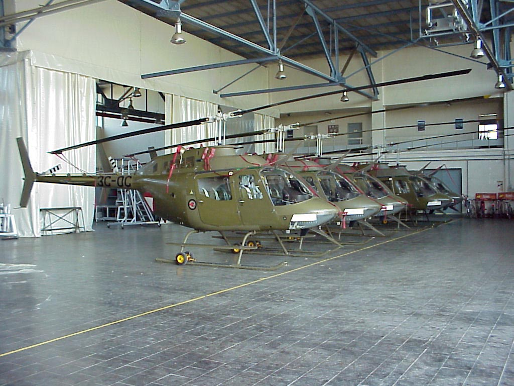 Bell OH-58B Kiowa (Austrian Bundesheer)